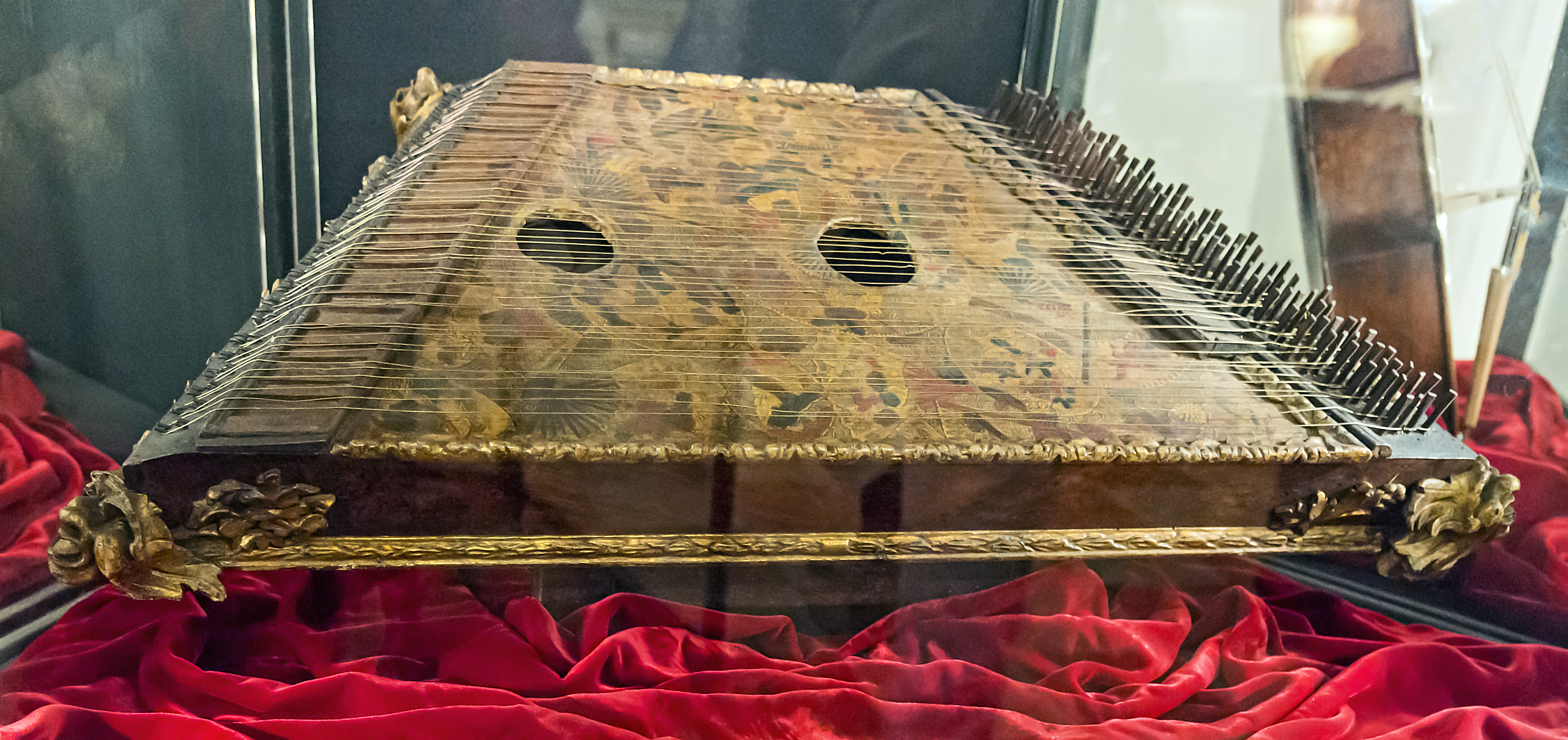 Church San Maurizio today Museo della musica in Venice. Psaltery Venetian School 1700 - Of ancient oriental origin, after a period of scarcity, the psalter was in the midst of the sixteenth, seventh, and even European nineteenth century galleries.